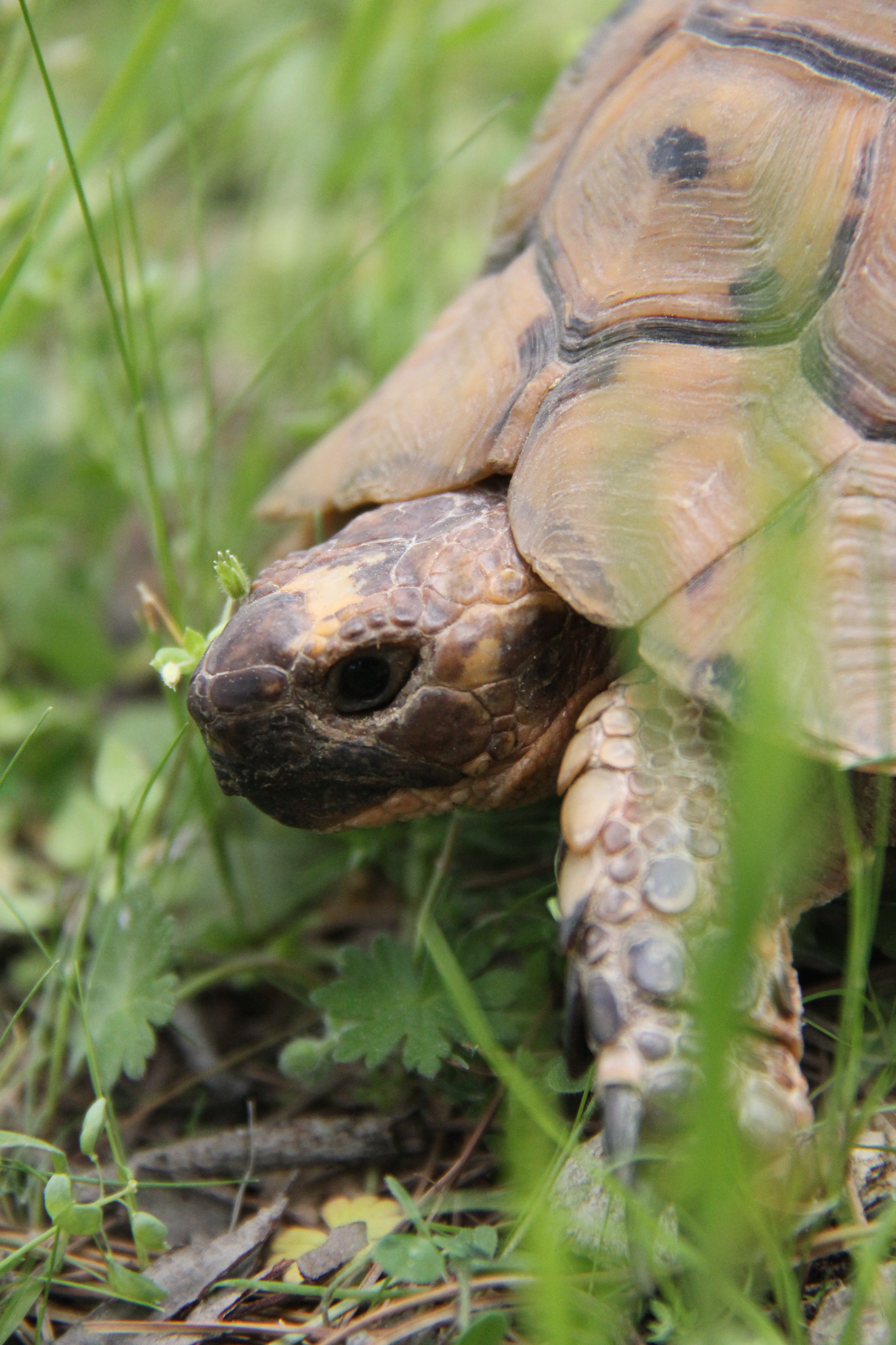 A Spur-thighed tortorise (Testudo graeca terrestris) at Dibbeen nature reserve in northern Jordan.